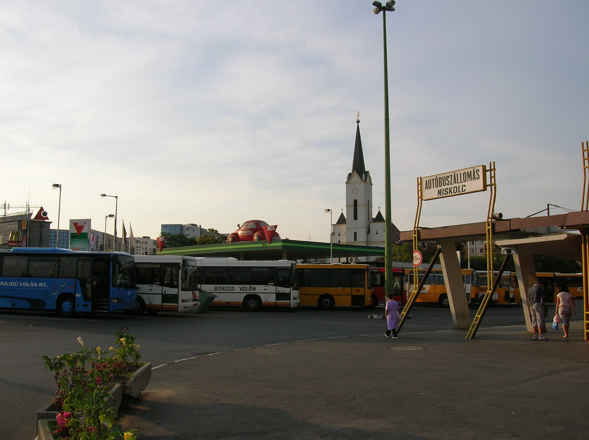 Buses of various Volán companies at Búza Square bus station, Miskolc, Hungary. Volán companies are bus companies, there are 24 of them, the areas served by them roughly corresponding to the 19 counties of the country. They mainly provide transport between towns, but they also provide local bus transport in several cities and towns. Buses on this picture include those of Borsod Volán (Borsod-Abaúj-Zemplén county) and Hajdú Volán (Hajdú-Bihar county).